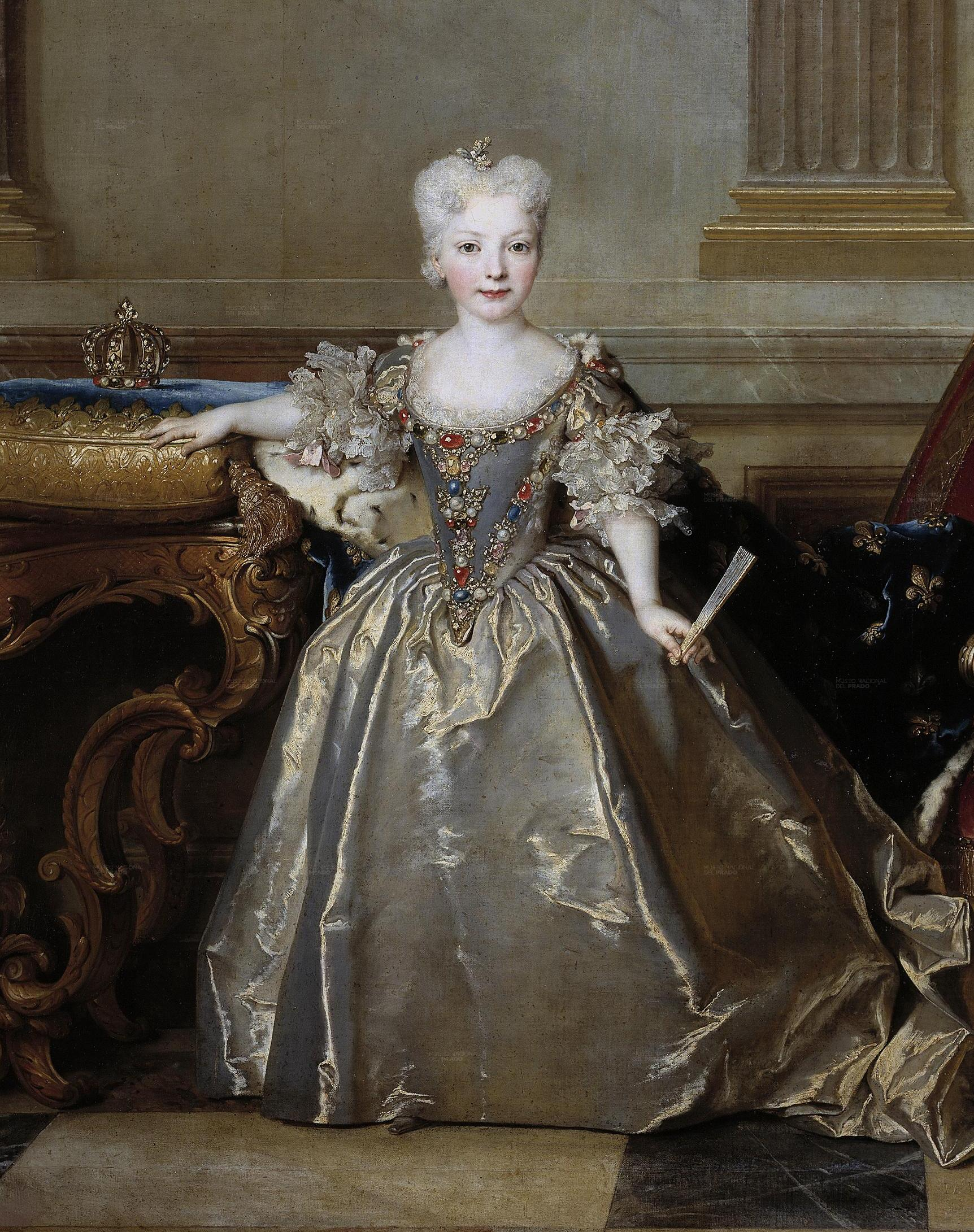 Infanta Mariana Victoria of Spain, Queen Consort of Portugal and the Algarves (Portuguese: Mariana Vitória) (31 March 1718 – 15 January 1781) was Queen Consort of Portugal and the Algarves due to her marriage to Joseph I. She also acted as Queen Regent of Portugal. She has descendants ranging from the present King of Spain, Grand Duke of Luxembourg, Duke of Parma (the Parma line was founded by her second surviving brother Philip) and French Pretenders, the Count of Paris.